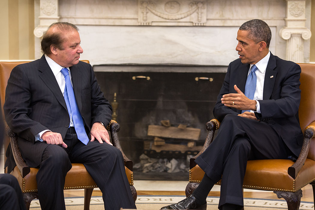 President Obama and Prime Minister Nawaz Sharif of Pakistan Other information President Obama and Prime Minister Nawaz Sharif of Pakistan After Bilateral Meeting on October 23, 2013